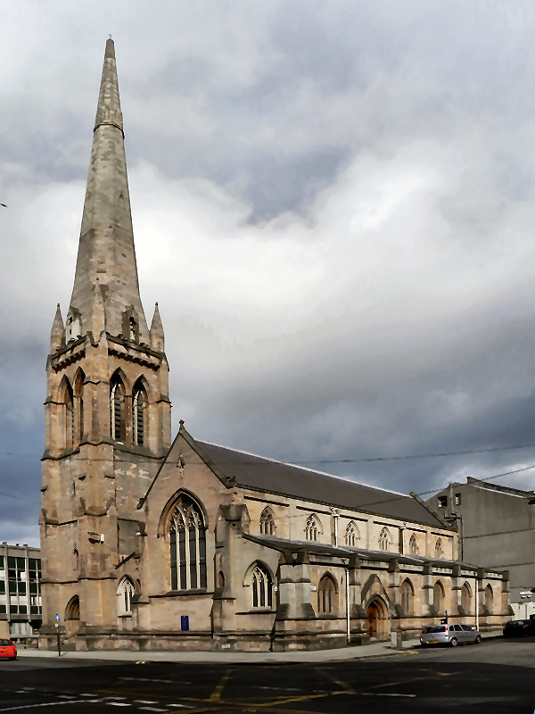 Renfield St Stephen's Church and Centre